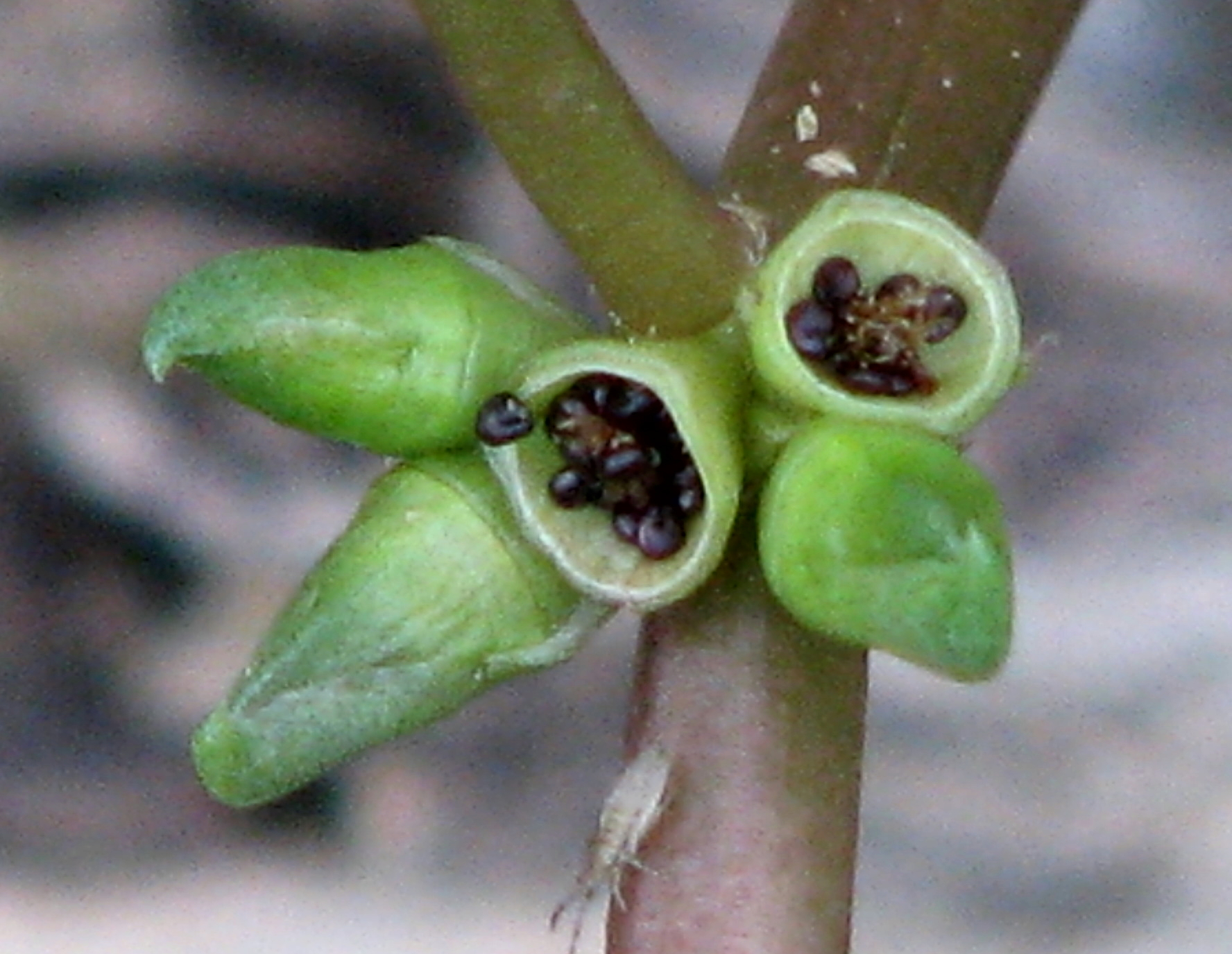 Seed pods of the common purslane plant (Portulaca oleracea). Three are closed and two are open, revealing the seeds.